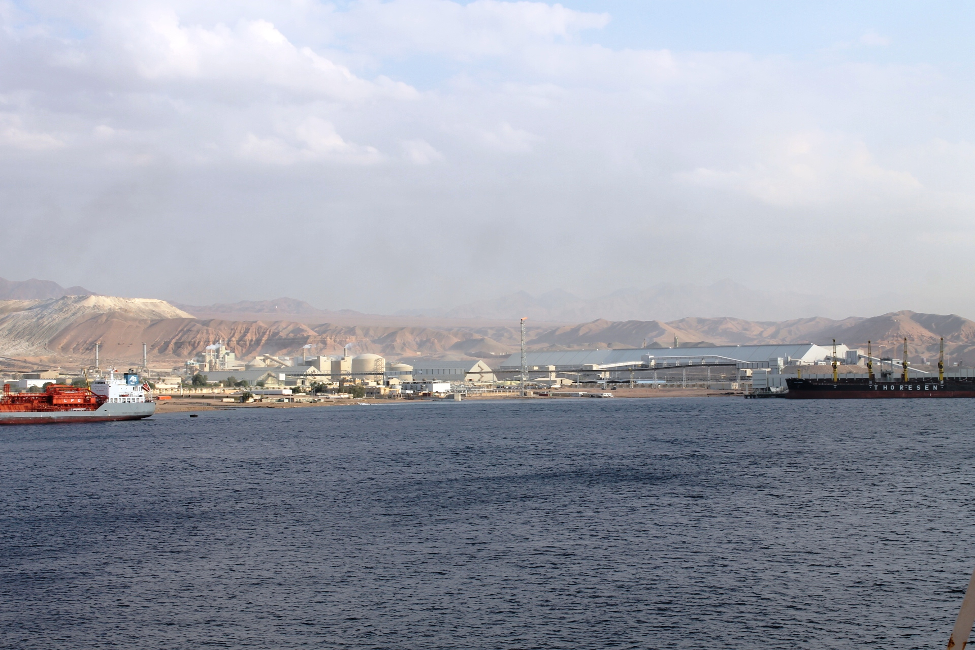 overlooking site from my ship photo shot!